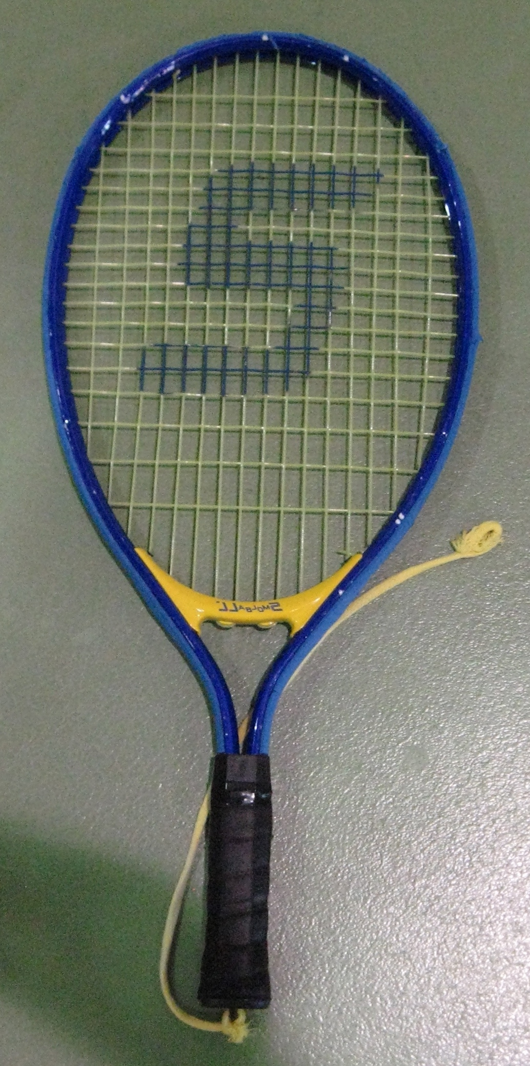 Smolball